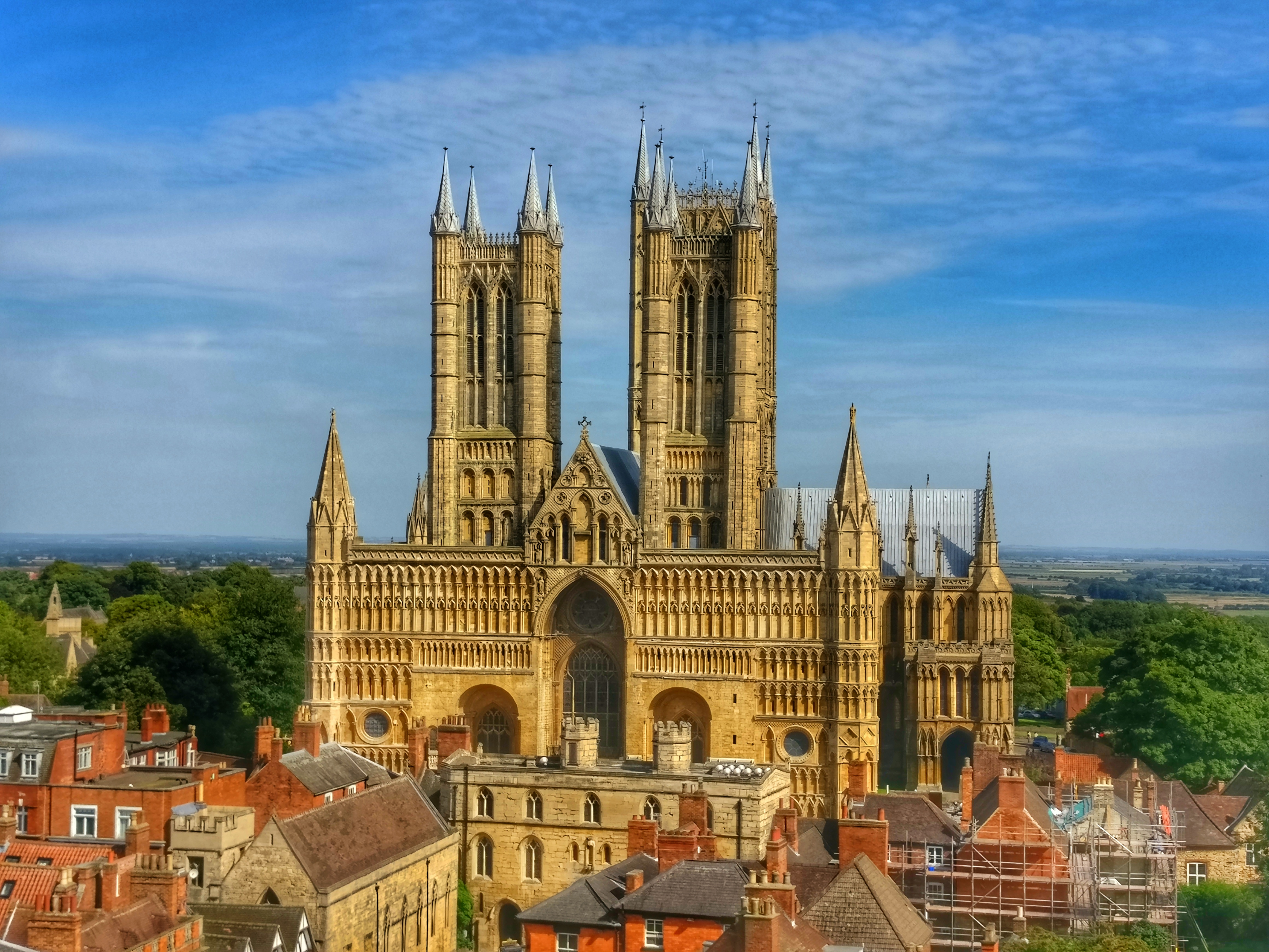 Lincoln Cathedral Wikidata has entry Q390169 with data related to this item.